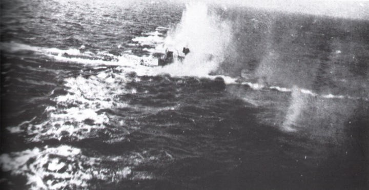 Attack of U-1065 by strafing and rockets from British Mosquito aircraft on 9 April 1945